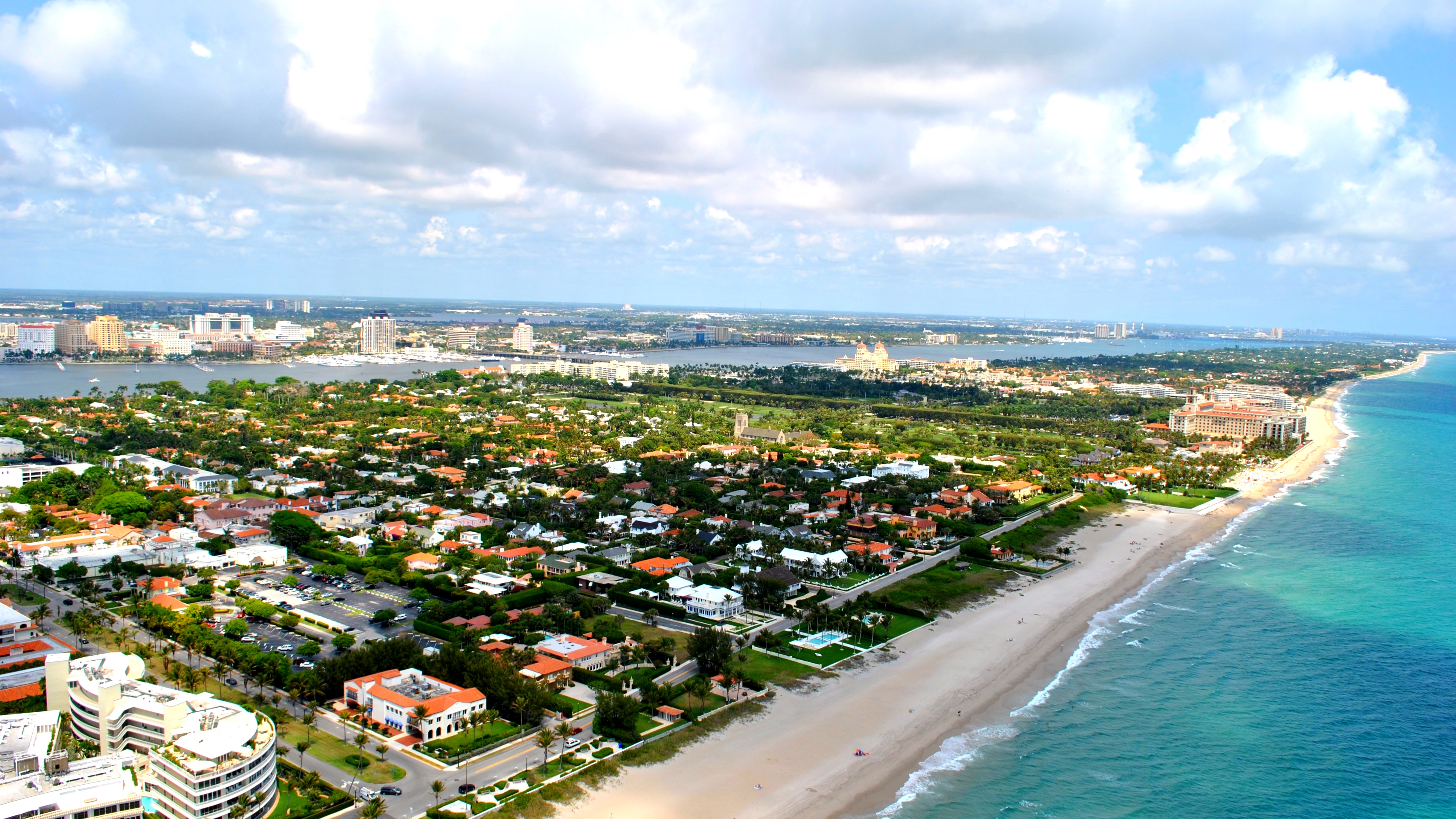 Aerial photograph of the Town of Palm Beach